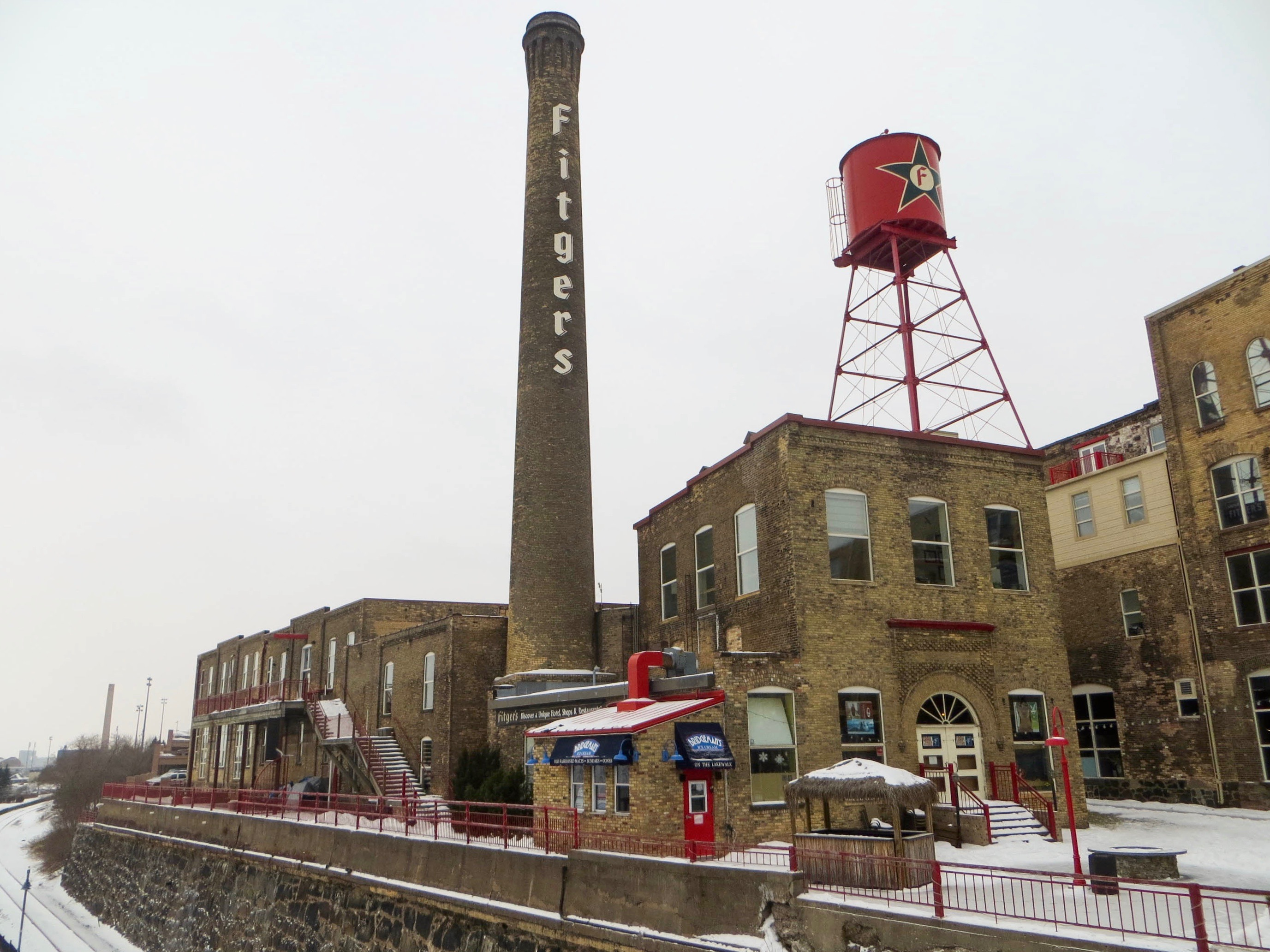 The former Fitger's Brewing Company complex, in Duluth, Minnesota, viewed from the northeast, in January 2016. According to the historic uses, the nearest building (with water tower atop it) was the Ice Machine building, to its left (with smokestack attached) was the Boiler House, and farthest back the Wash & Racking House. (Details taken from National Register of Historic Places nomination form.)